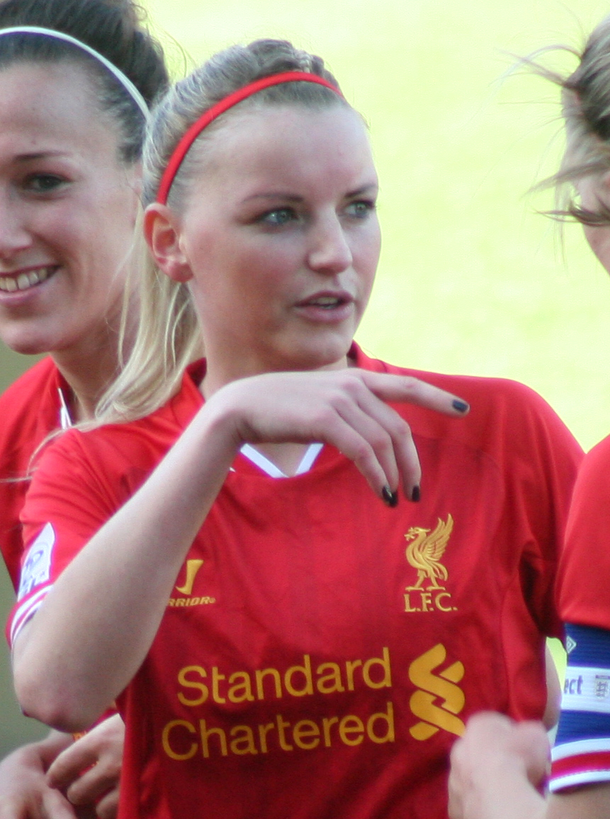 Liverpool L.F.C. - 2013 FA WSL Championship celebration